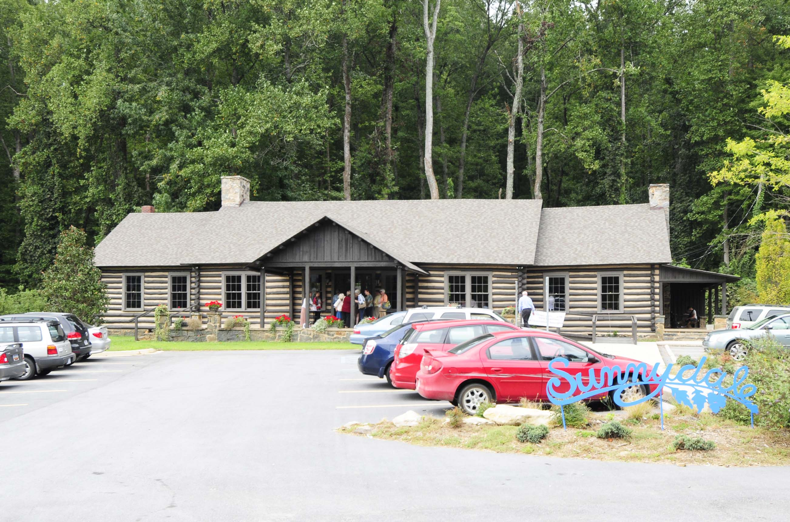 Sunnydale